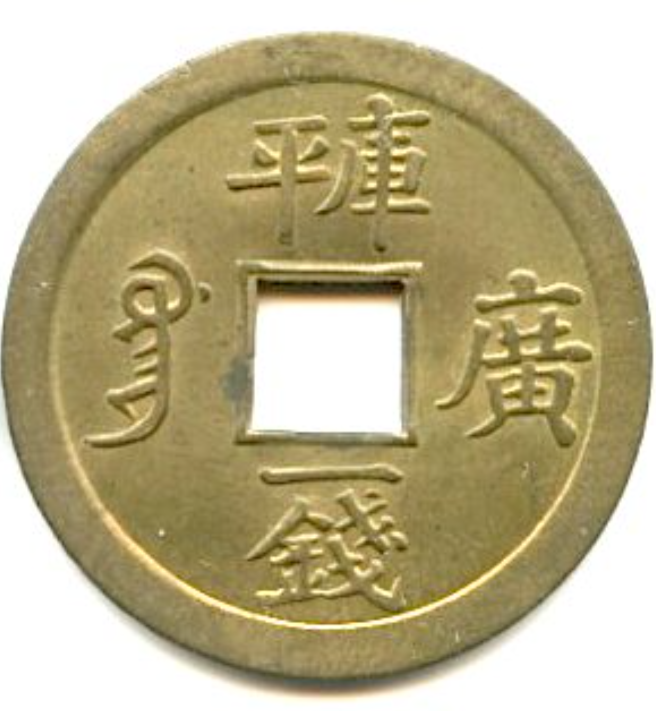 A Guangxu Tongbao cash coin fitted to be exactly one (1) kuping qián. "Kuping" (庫平; kùpíng; "treasury standard") refers to a national standard of weights and measurements created by the Manchu government to create a singular decimal system in China.